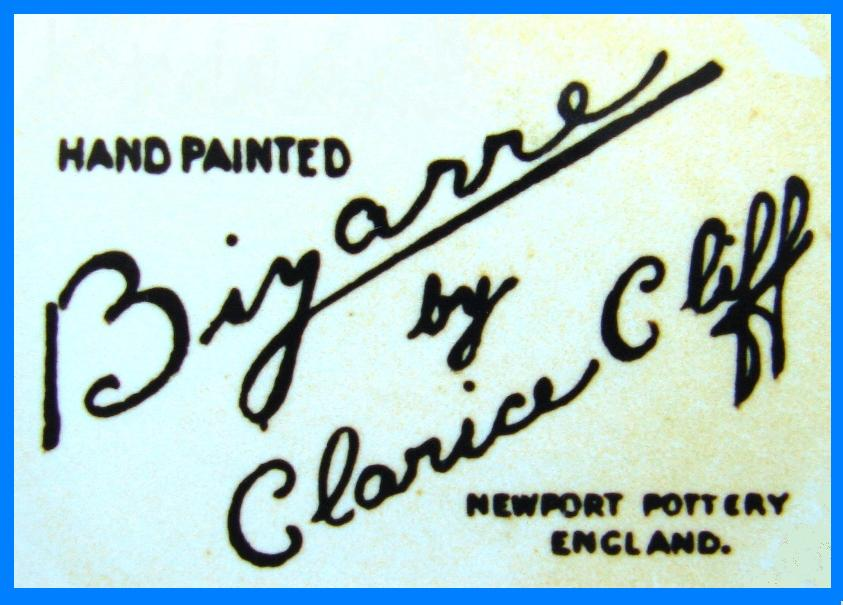 Printed backstamp from 1928, then used on 'Bizarre' ware in various styles until early 1936